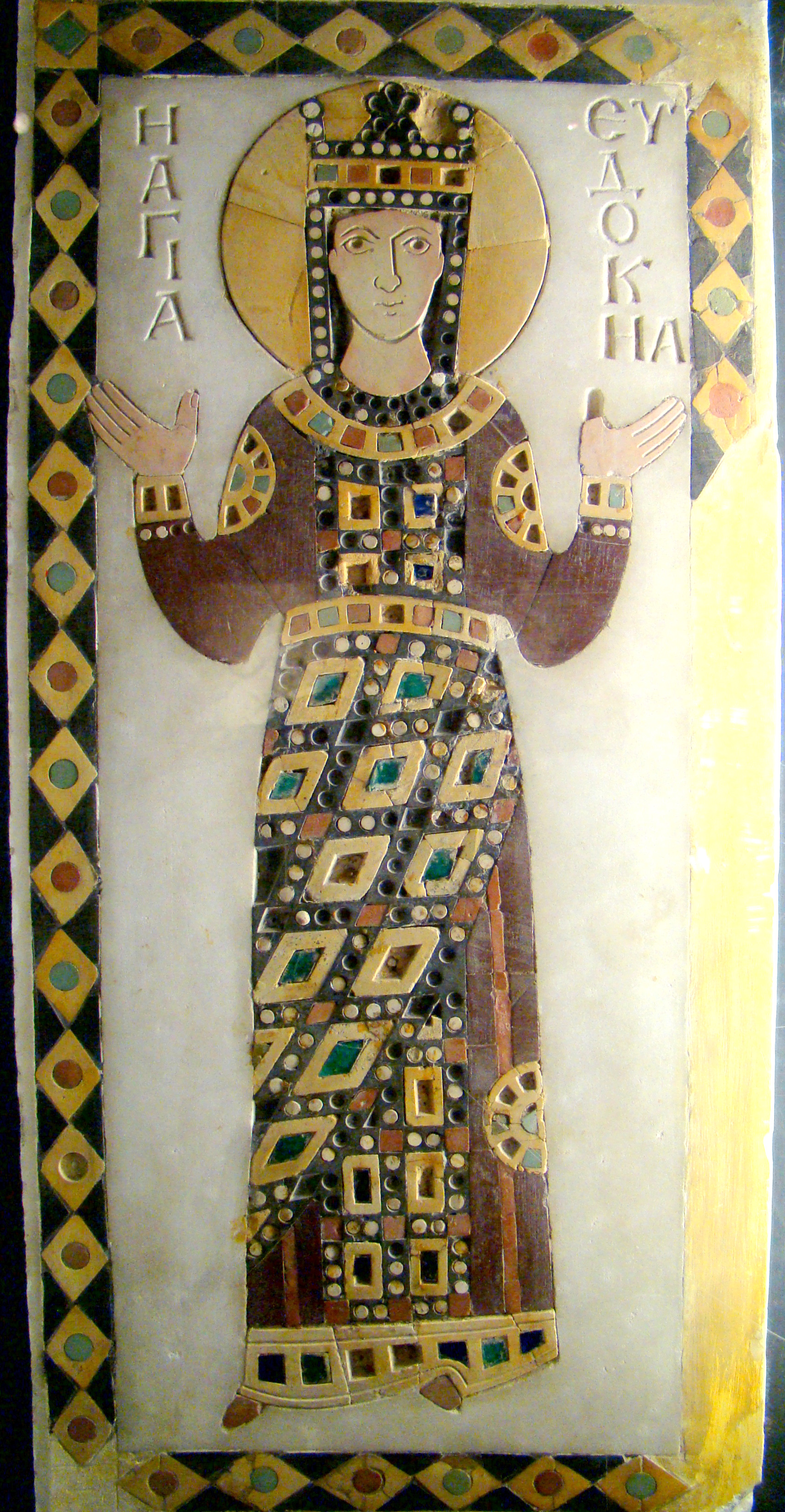 From the Church of Lips Monastery (later Fenari Isa Mosque), a coloured stone inlay on marble from the late 10th/early 11th century, Saint Eudocia. On display at the Istanbul Archaelogical Museum.